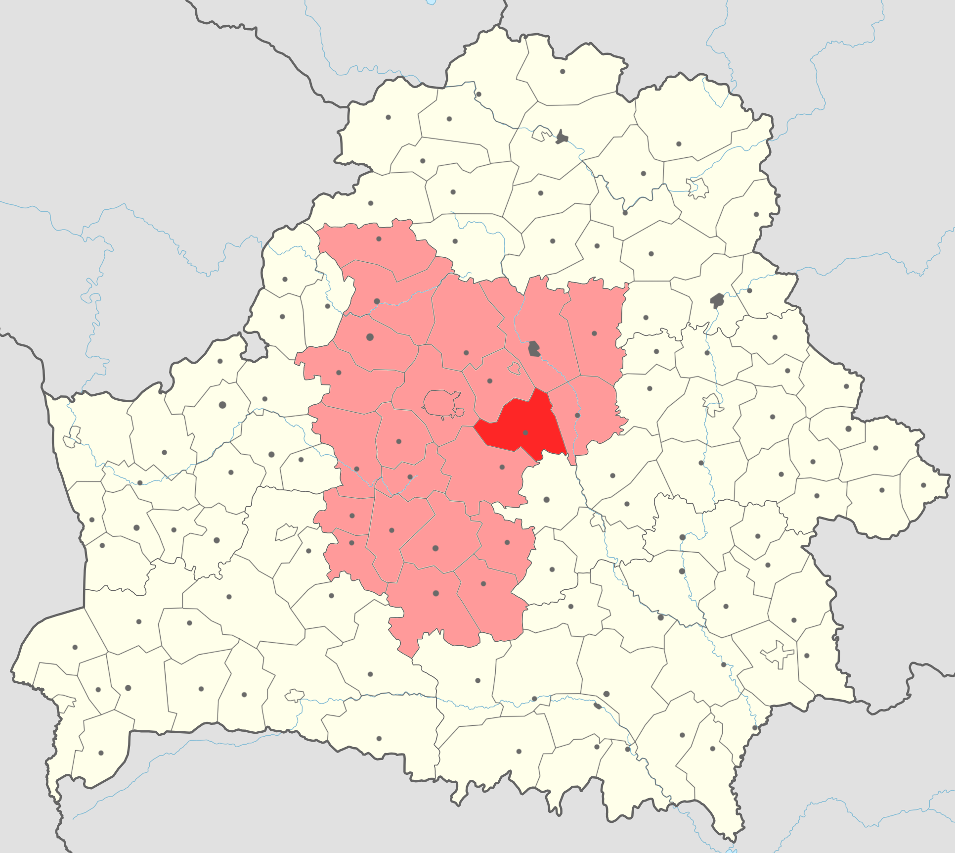 Map of Červień (Cherven') rayon (in red) with Minsk voblast' (in light red) on the map of Belarus.